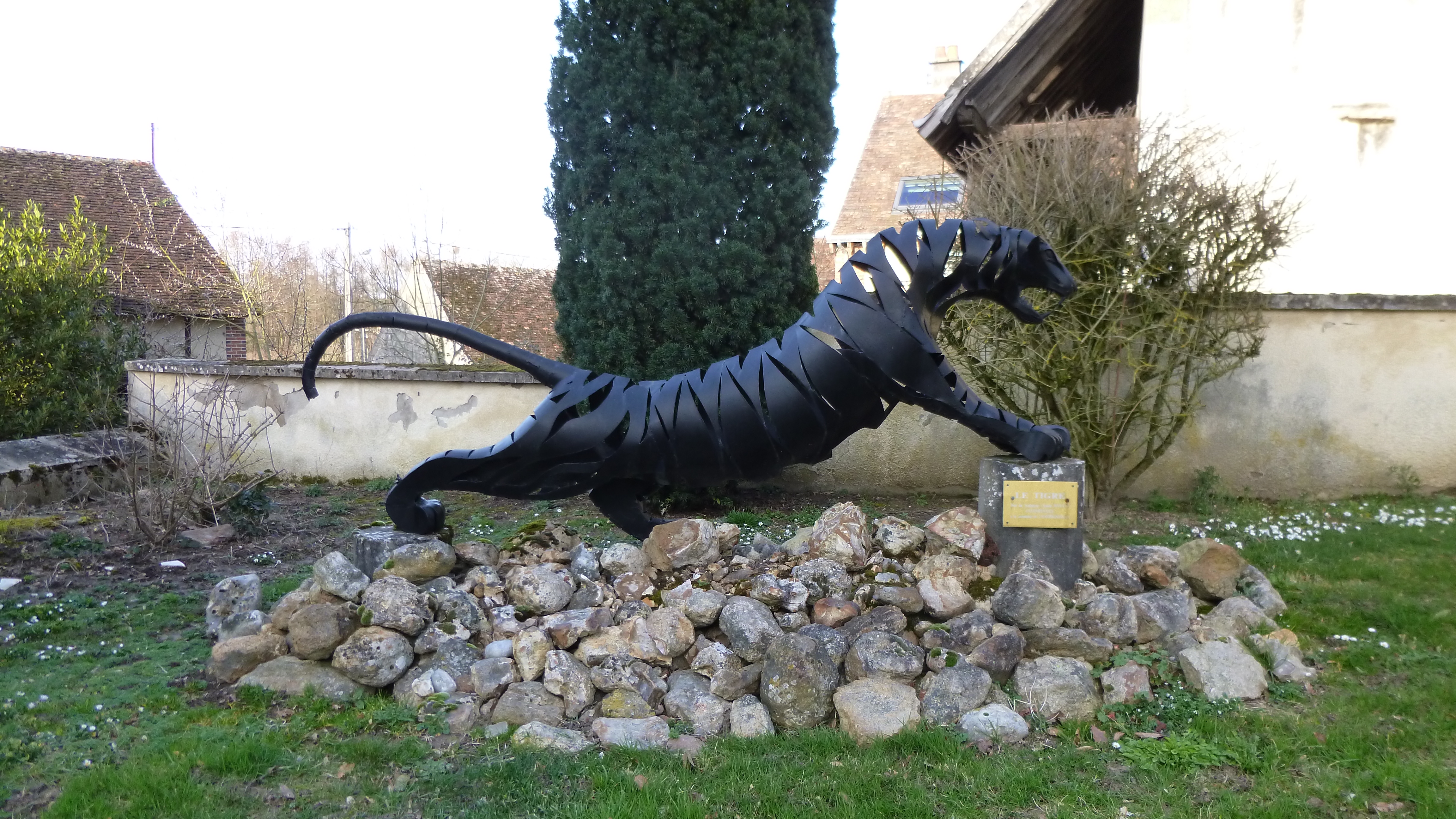 Champignelles, Yonne, Burgundy, France. At the corner of Rue du Lavoir and Rue Montesquieu, a metal sculpture by Claude Welsch (from Alfortville), who donated it to Champignelles.